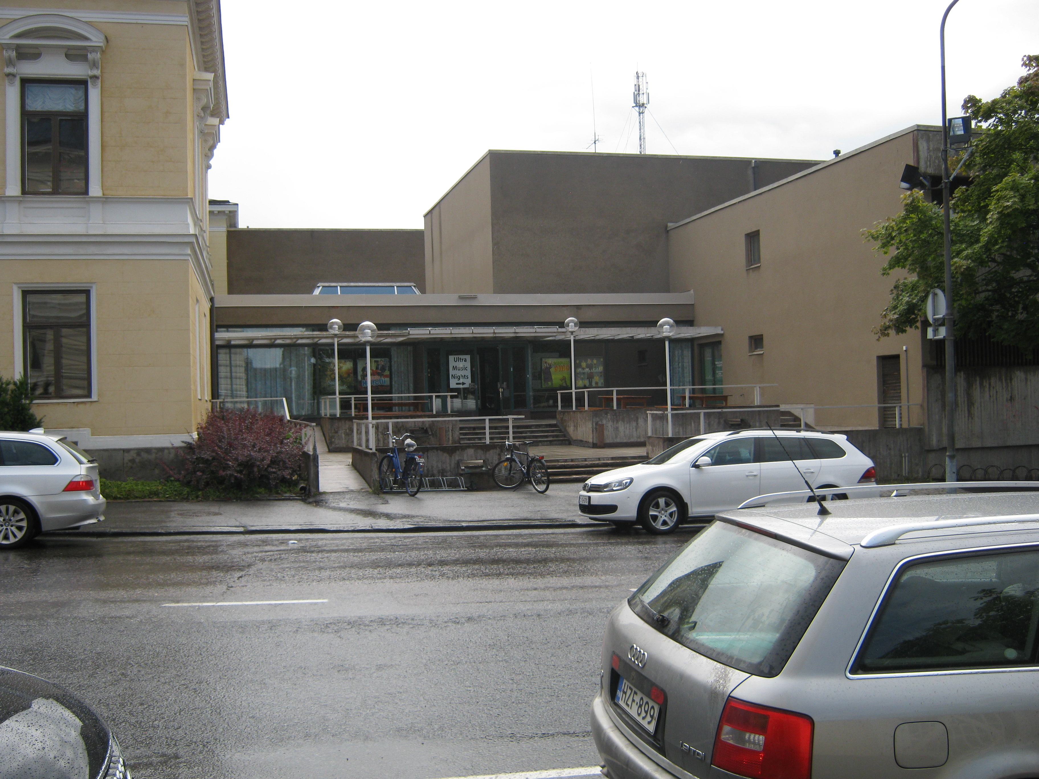 Pori studio theatre, Finland.